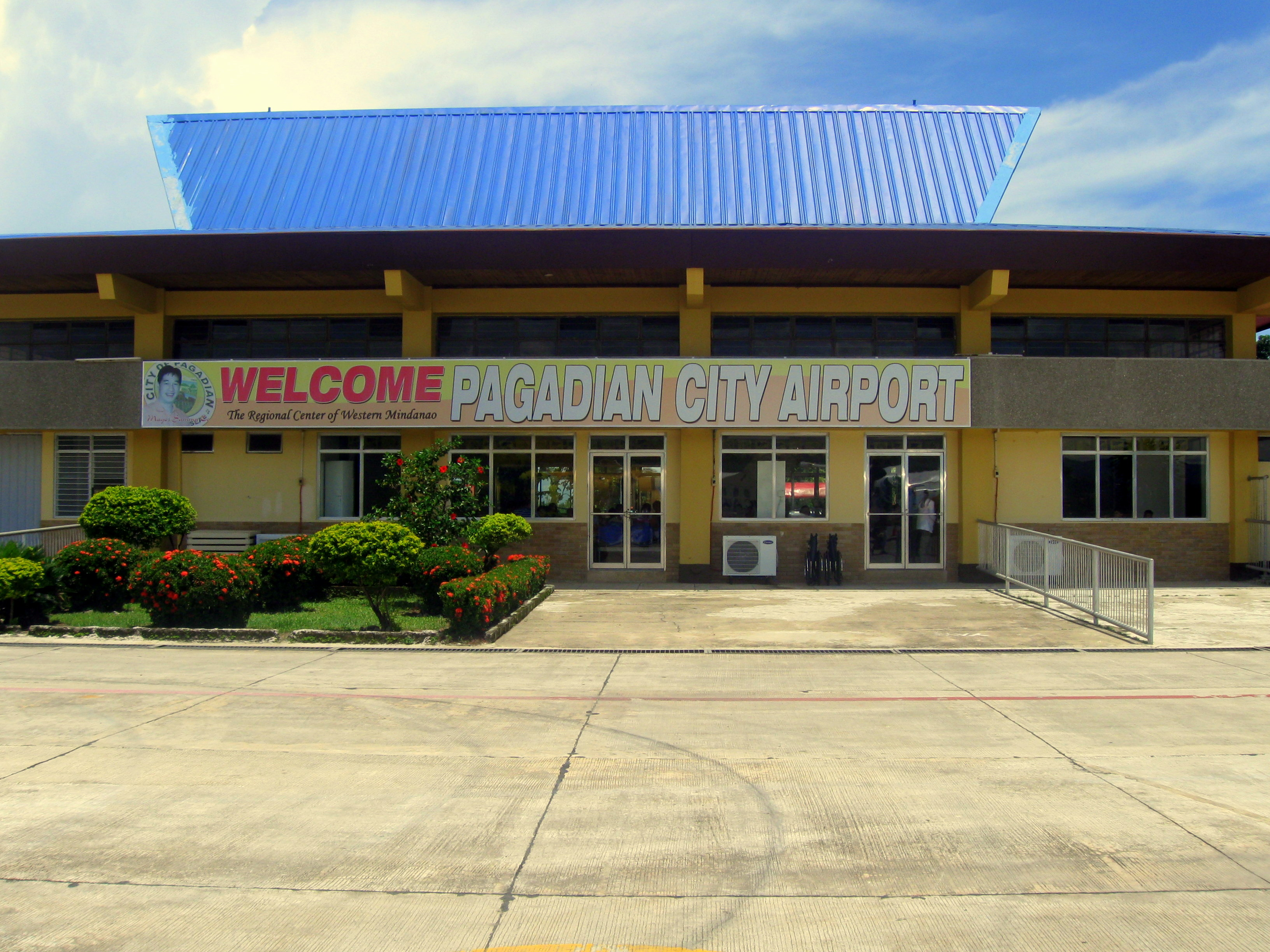 Picture of Pagadian Airport Frontage